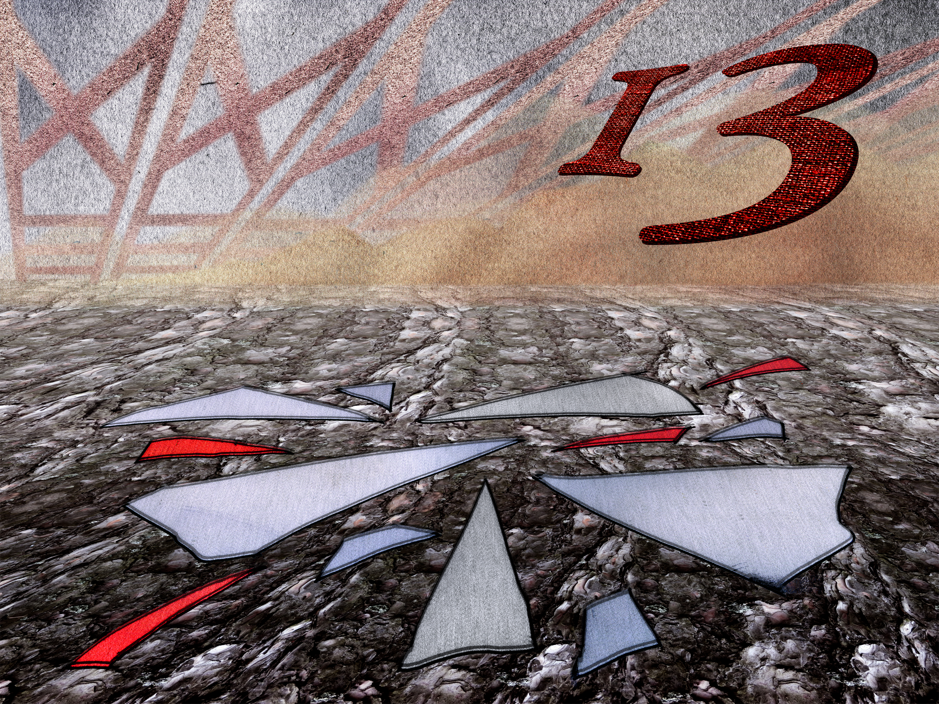 Illustration of unluck with a broken mirror and the number 13.